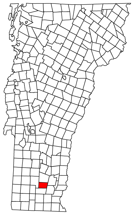 Description: Map of Vermont towns with Wardsboro highlighted Source: Map created by Jared C. Benedict on 26 March 2004. Copyright: © Jared C. Benedict.